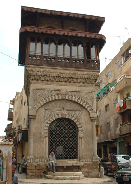 Sabil-kuttab of Abd al-Rahman Katkhuda. Cairo. Egypt